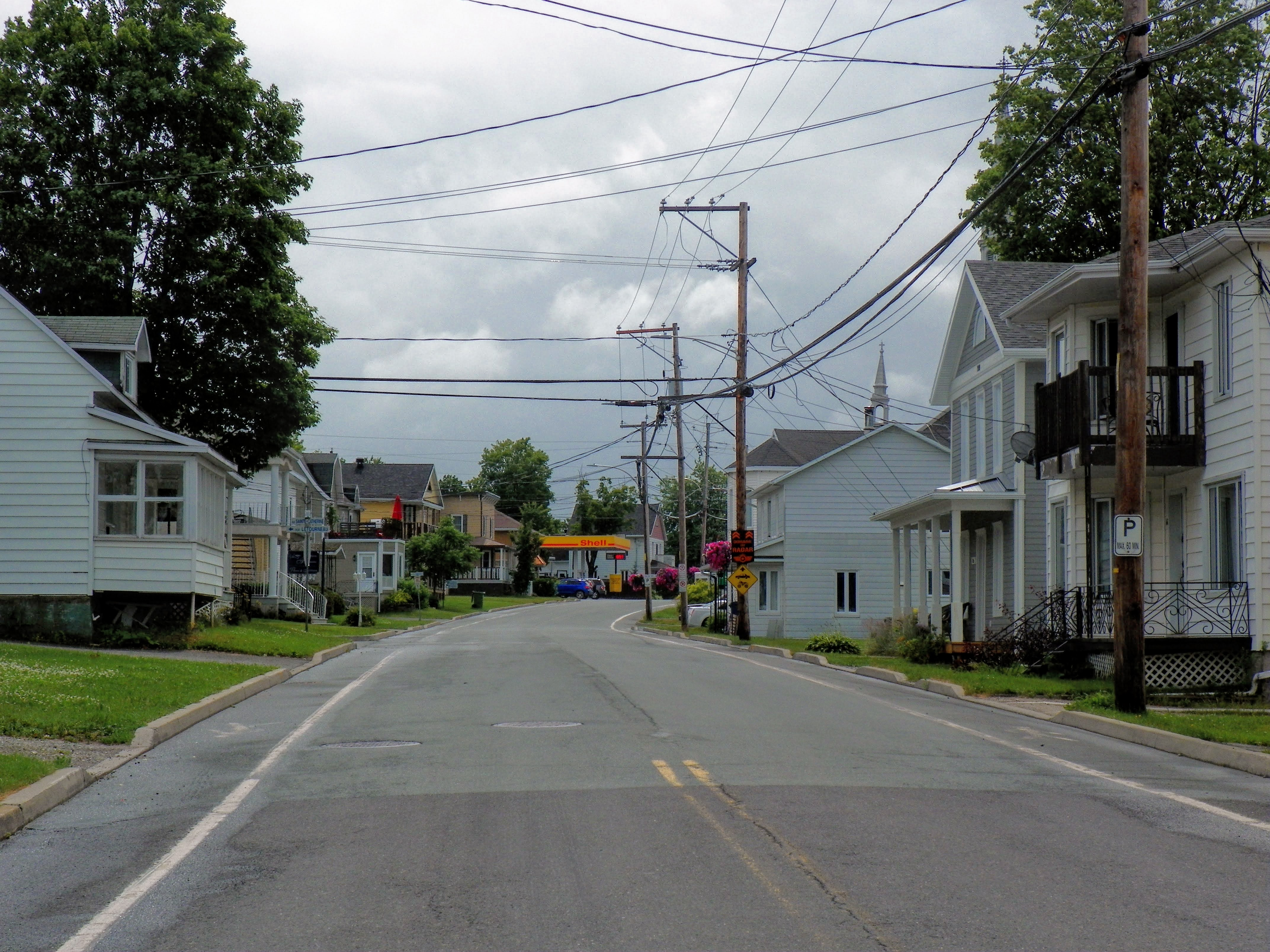 Principale street (main street; route 216 west) in Saint-Sylvestre, Québec.